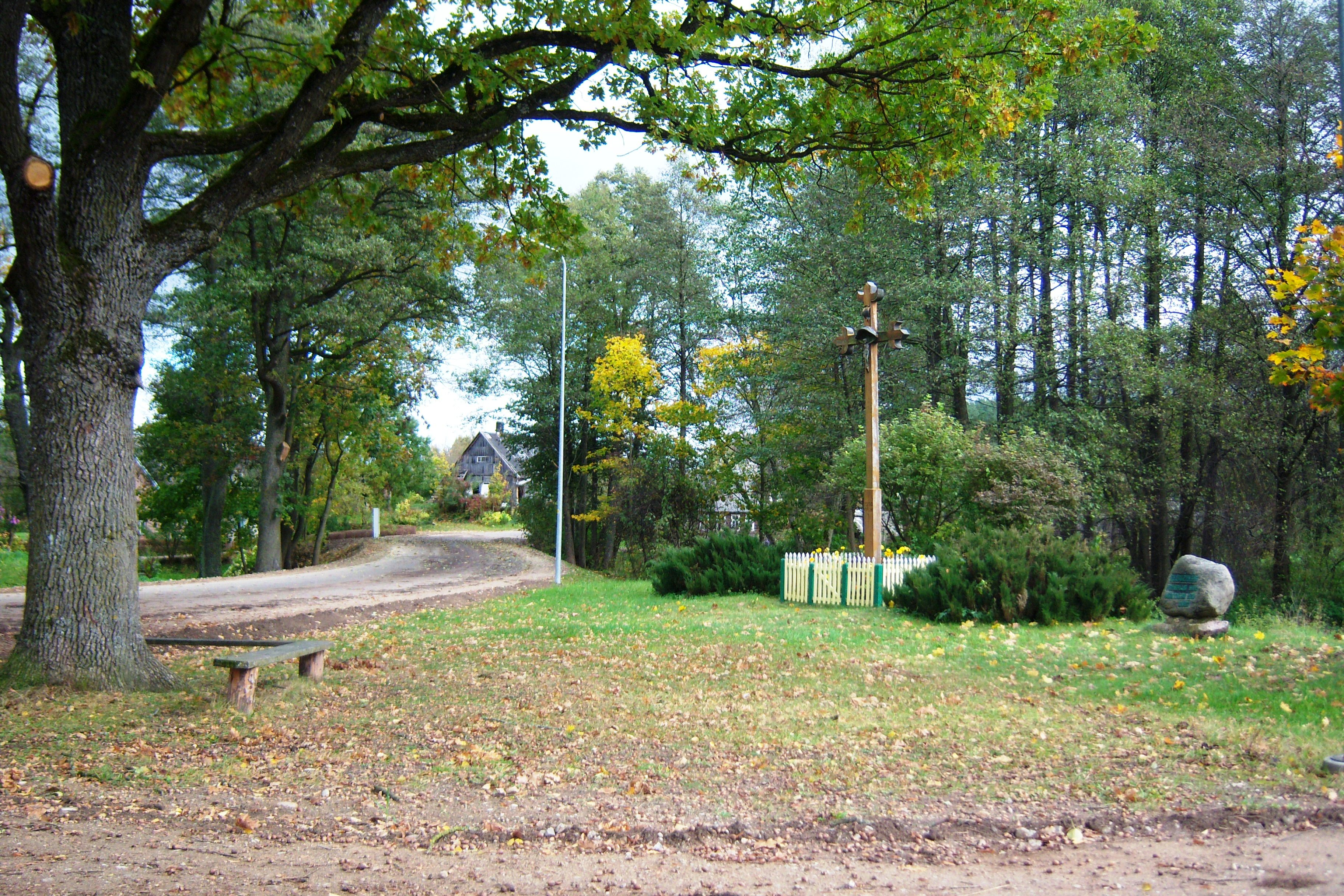 Gegužinė, Kaišiadorys District, Lithuania